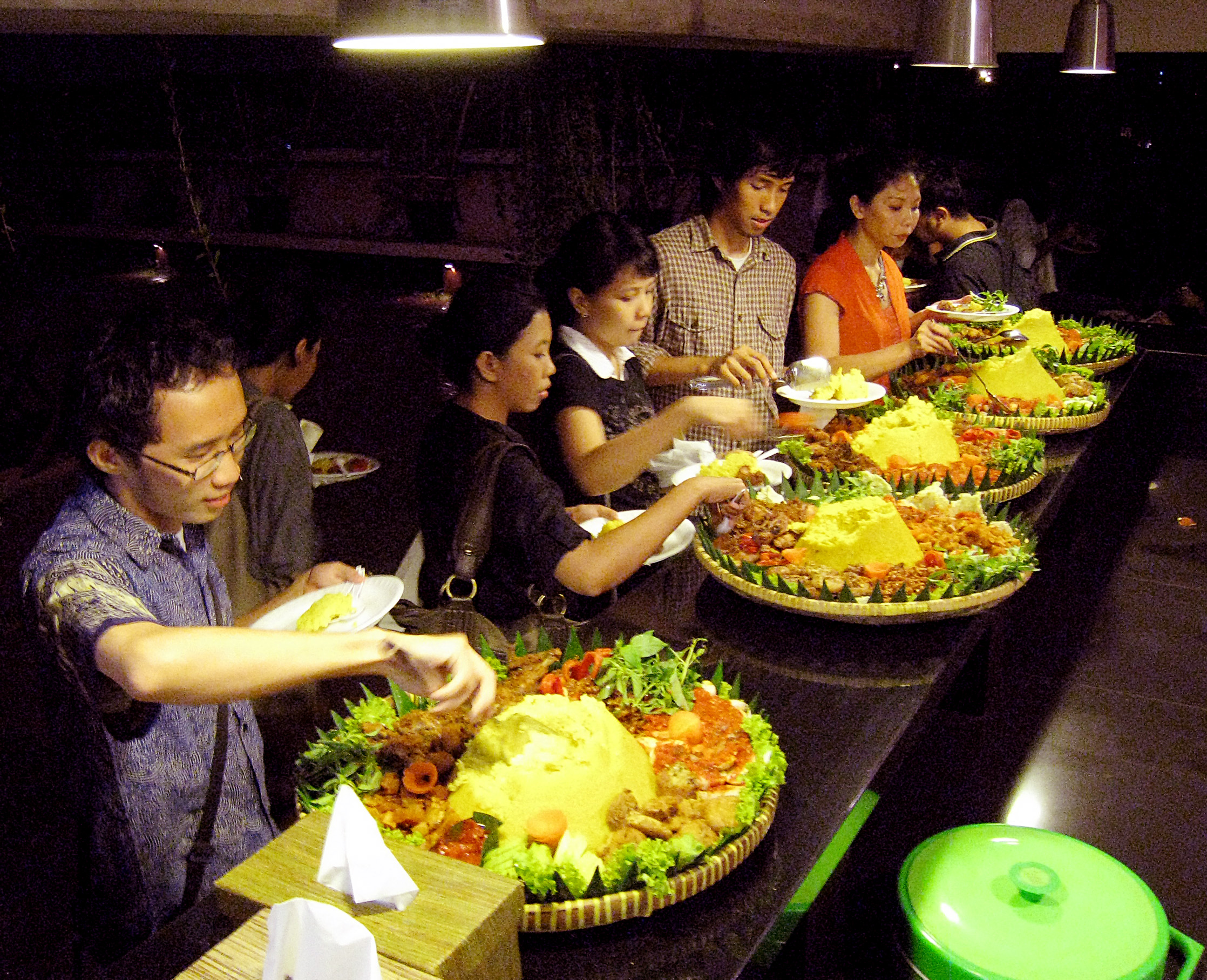 Tumpeng feast during IGDA (Indonesian Graphic Design Award) 2010. Salihara Gallery, South Jakarta, Indonesia.